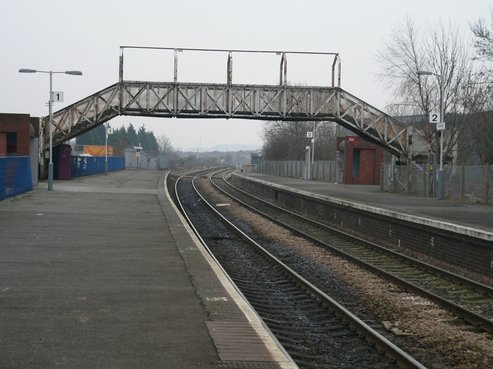 Patchway railway station in South Gloucestershire, viewed from the northern end of platfom 1. This platform is served by hourly trains from Cardiff Central to Bristol Temple Meads and Taunton, and during engineering blockades of Bristol Parkway, by eastbound intercity services. Although the footbridge looks rickety, and has definately seen better days, it actually feels sturdier than some cheap modern ones!